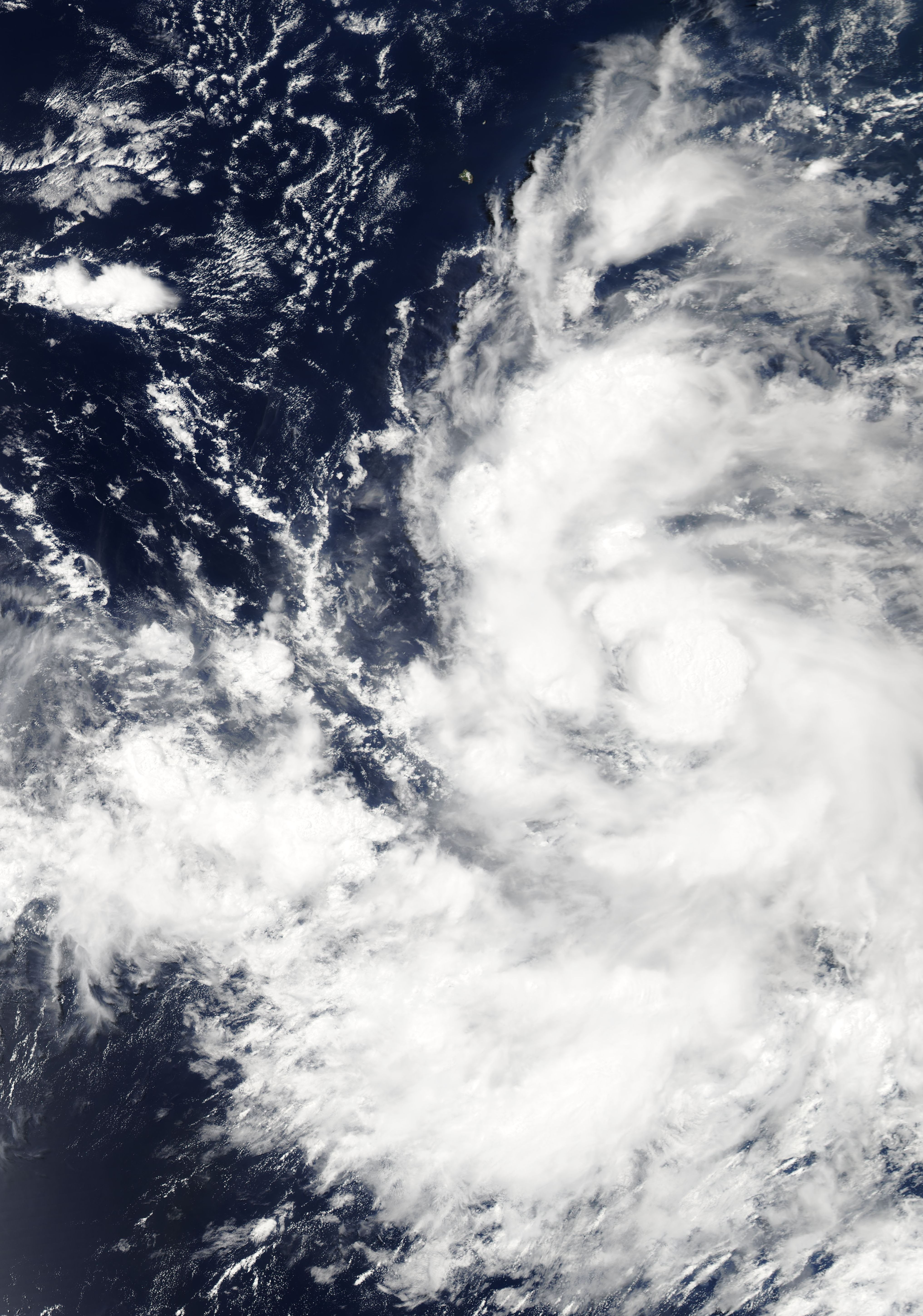 Tropical Storm Greg (07E) shortly before peak intensity on July 18, 2017